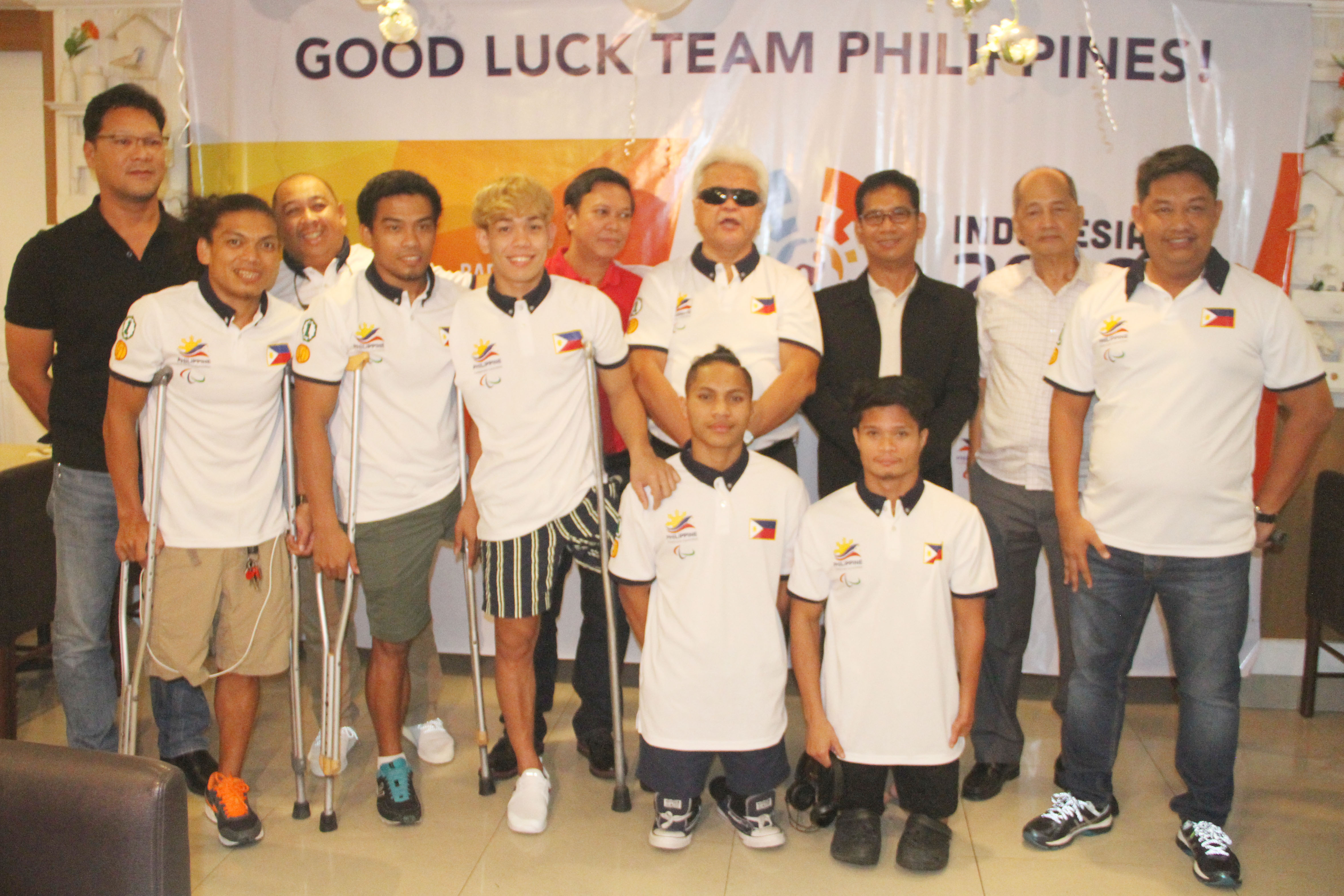 Some differently-abled athletes representing the Philippines in the PARA Games pose with Commissioner Charles Maxey (red shirt), of the Philippine Sports Commission, Philspada president Mike Barredo (black sunglass), PSC Commissioner-in-Charge Arnold Agustin (black blazer), during the send off ceremony held at Dads Edsa on Friday (September 28, 2018). A total of 57 Filipino para athletes will participate in the 3rd Asian Para Games from October 6 to 13, 2018 in 19 venues around Jakarta, Indonesia.